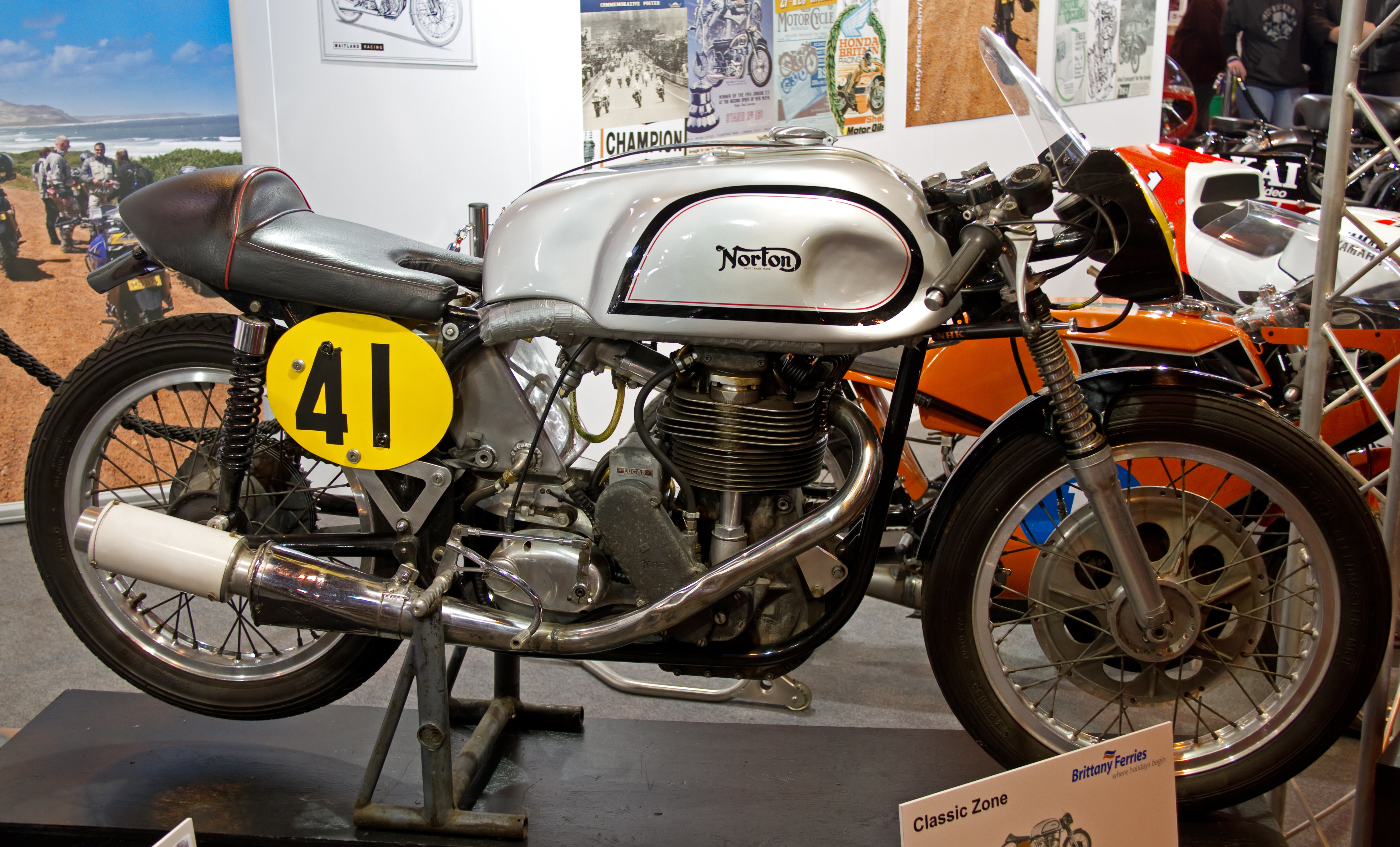 Norton Manx 30M 1956